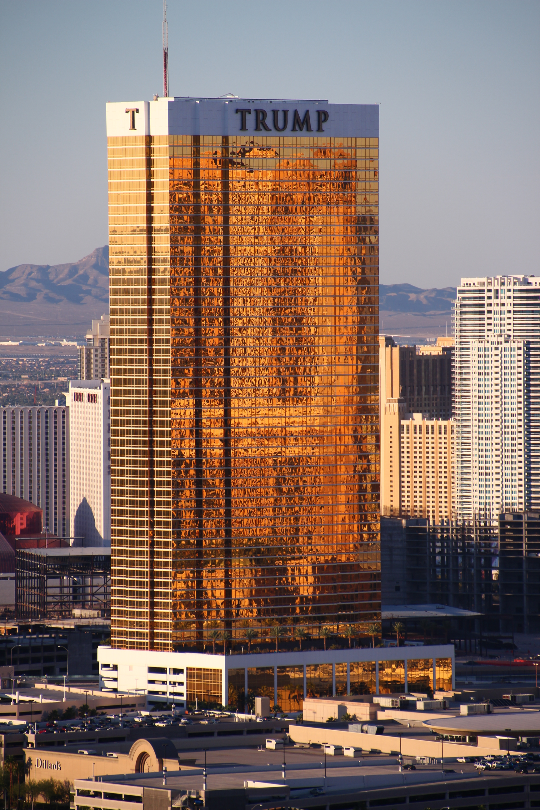 The Trump Hotel in Las Vegas, Nevada (viewed from the Rio Hotel).